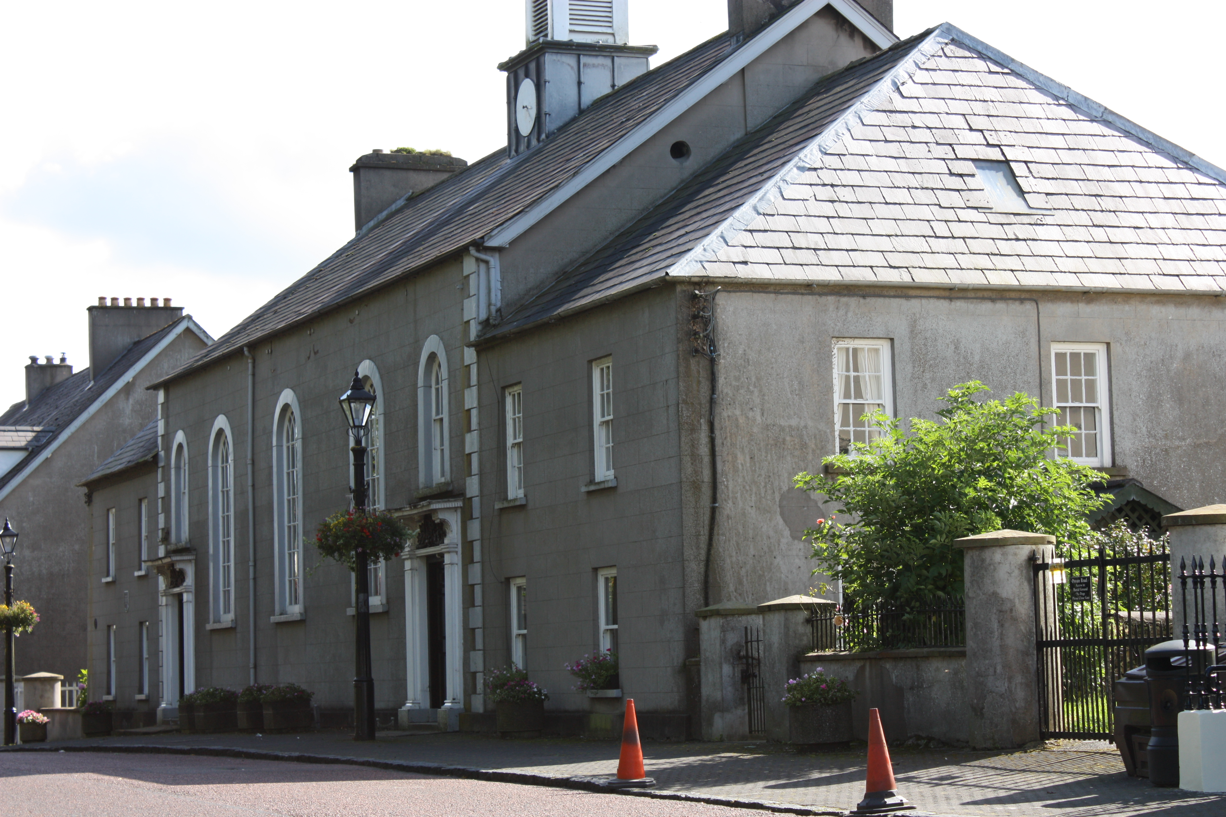 Moravian Church, Church Road, Gracehill, Ballymena, County Antrim, Northern Ireland, September 2009